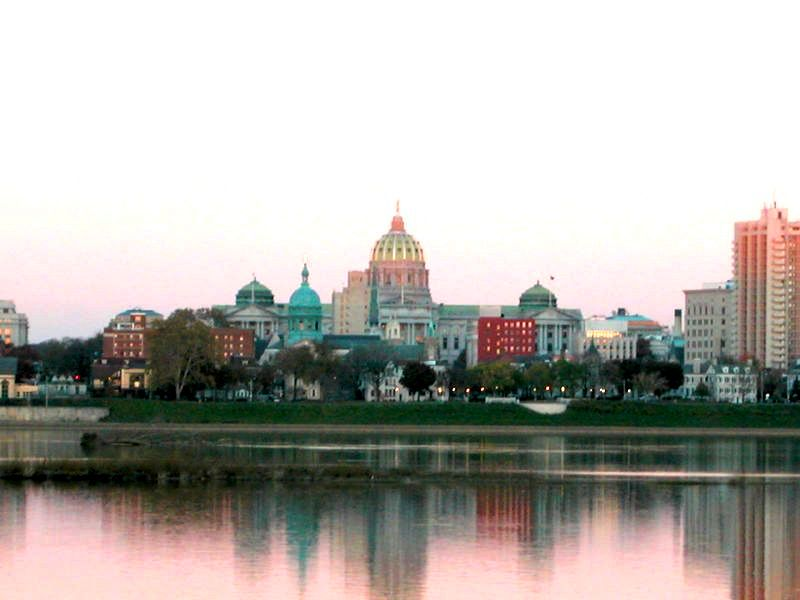 I took this image from the Harrisburg article and fixed the contrast, midtones and color.